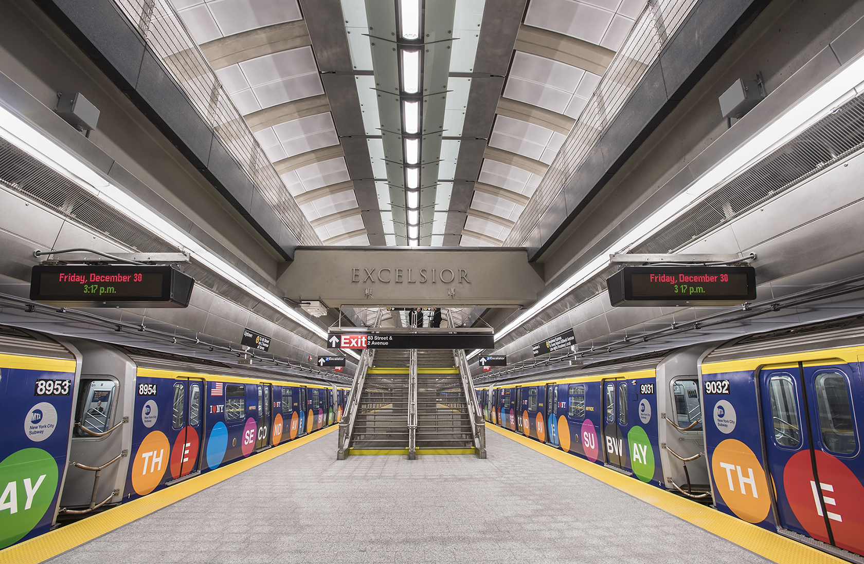 On December 30, 2016, Governor Andrew M. Cuomo and MTA Chairman and CEO Thomas F. Prendergast unveiled the Second Avenue Subway's 86th Street Station. An open house of the station followed. Photo: Metropolitan Transportation Authority / Patrick Cashin